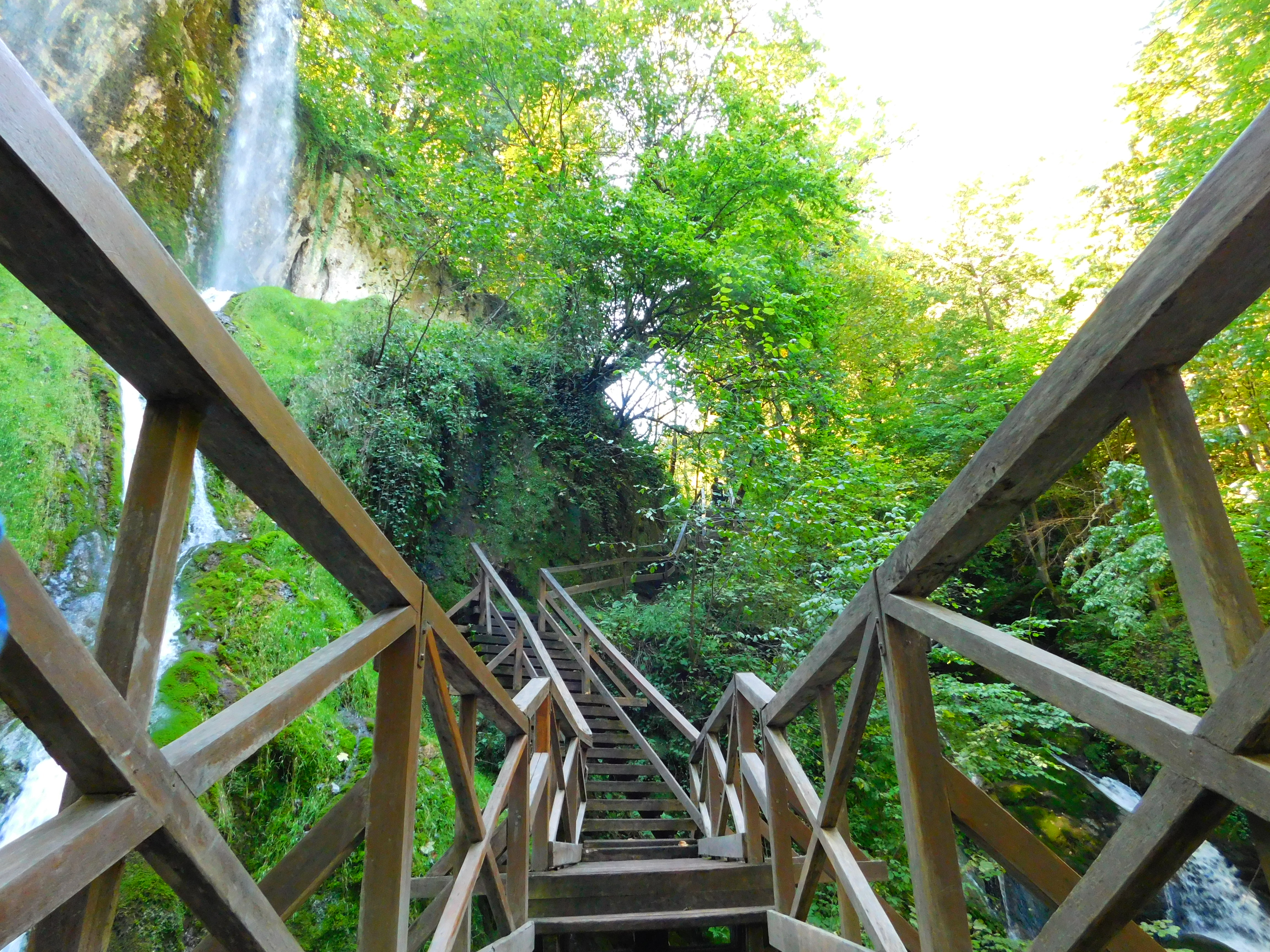 Stairs to the waterfall